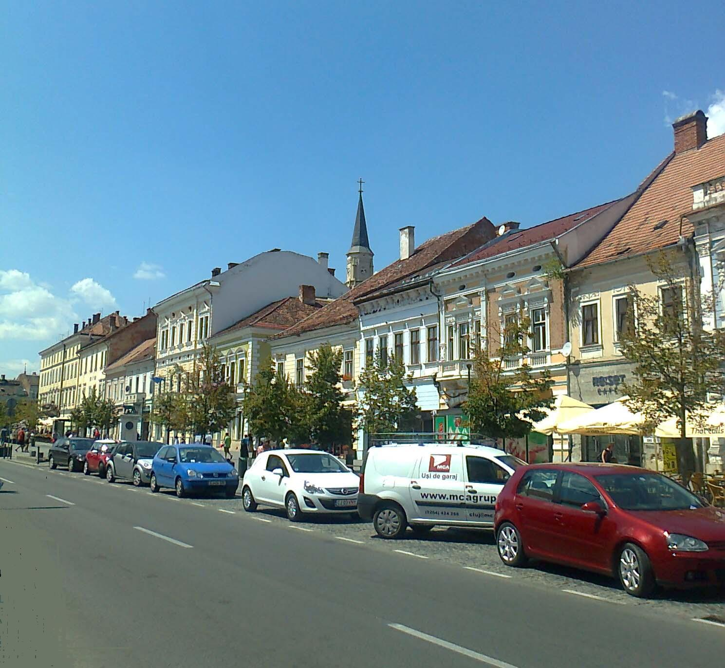 Eroilor street in Cluj-Napoca